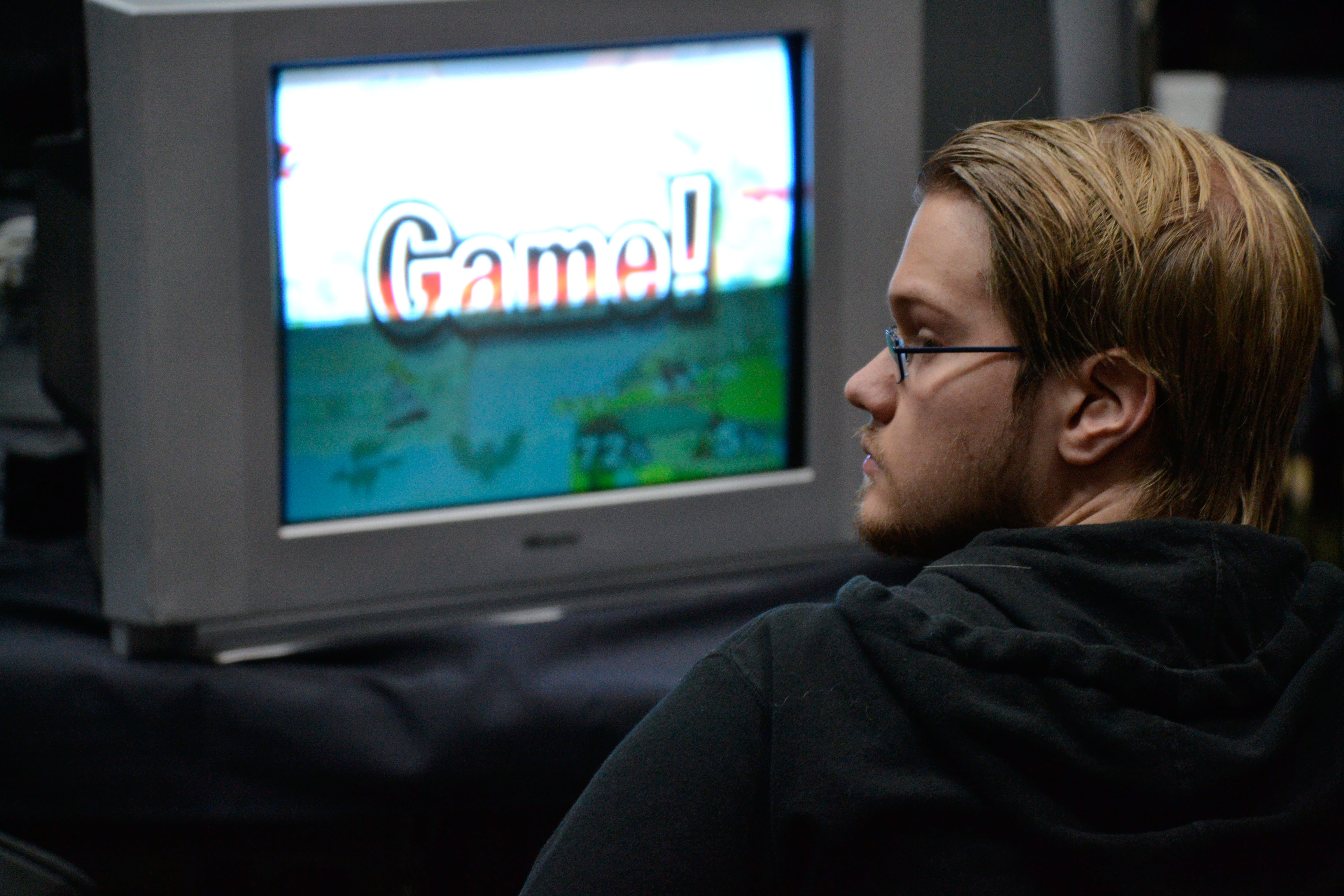 Professional eSport / Super Smash Bros. player Armada (Adam Lindgren) in The Big House 6 tournament by Connor Smith.